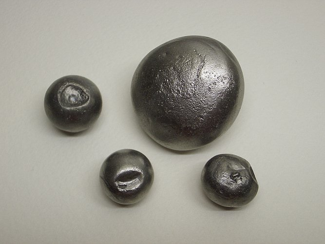 Beryllium nuggets